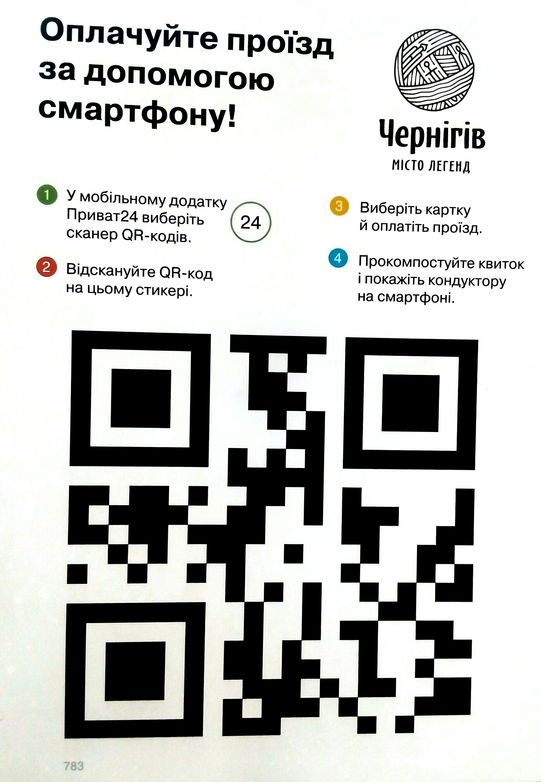 Qr-code in Chernihiv trolleybus, 2017.